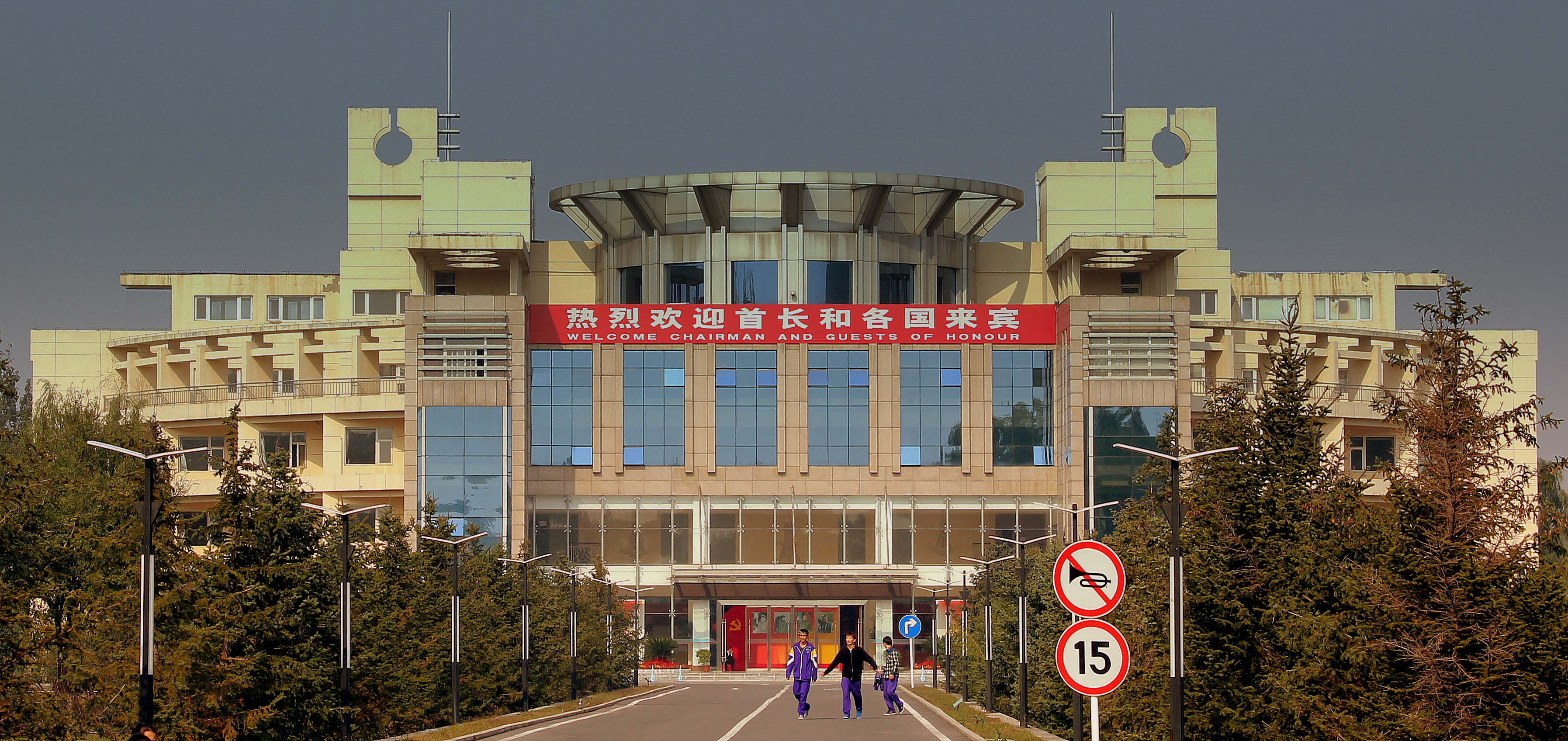 CHINA AVIATION MUSEUM AT DATANSHANG CHINA OCT 2012